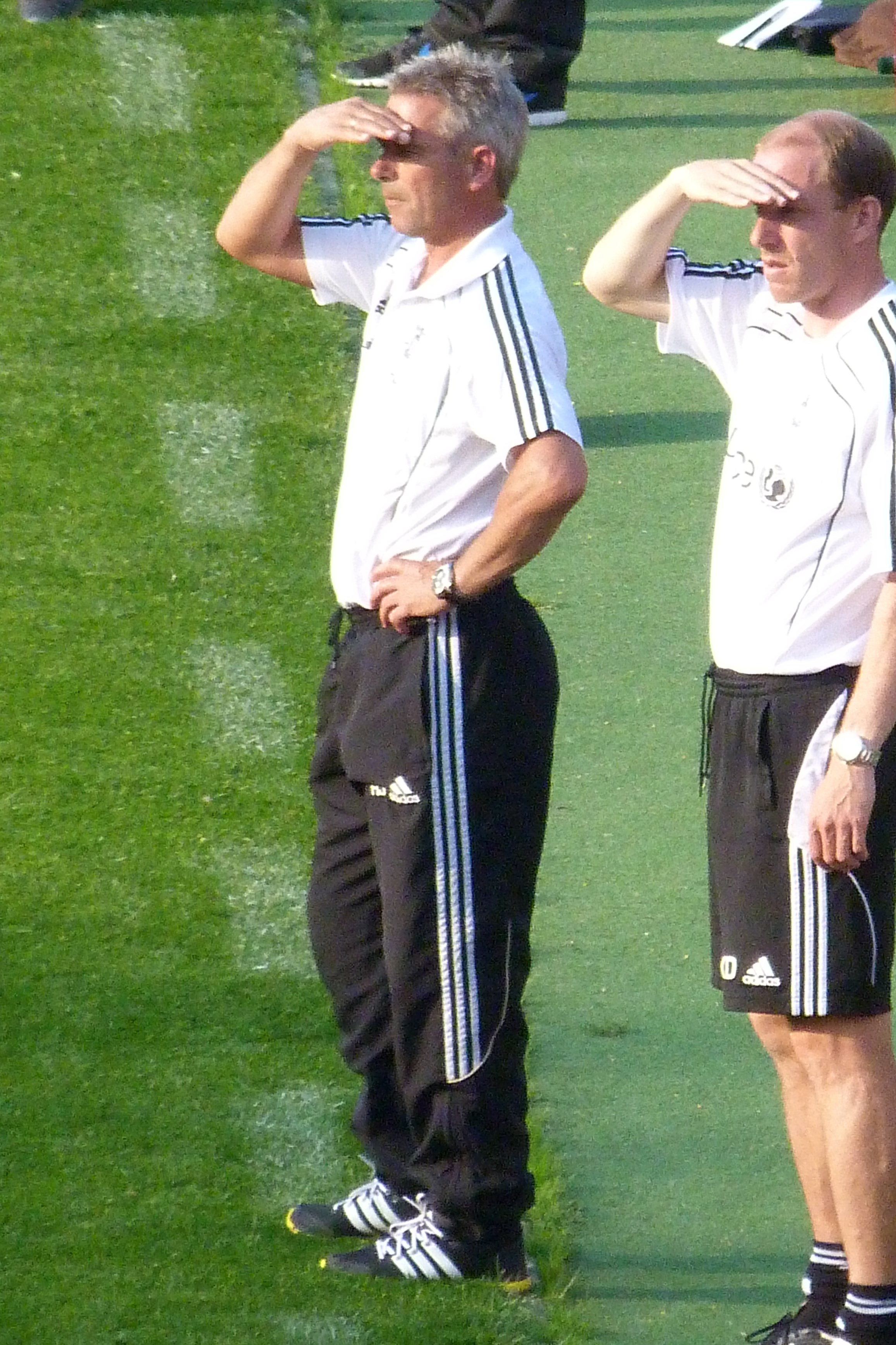 Henrik Jensen as Coach/Manager from Bröndby IF